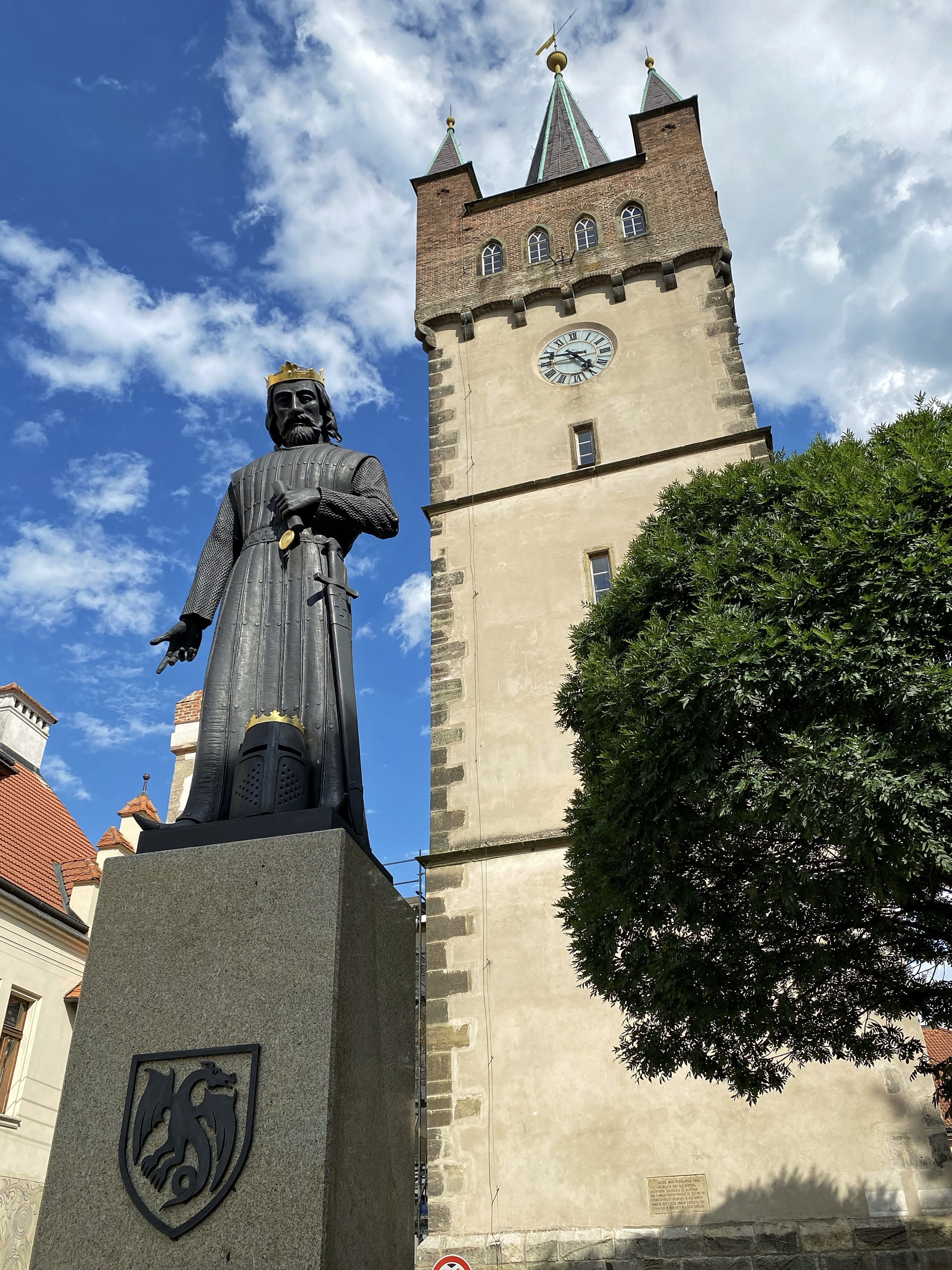 Prague Gate in Vysoké Mýto.